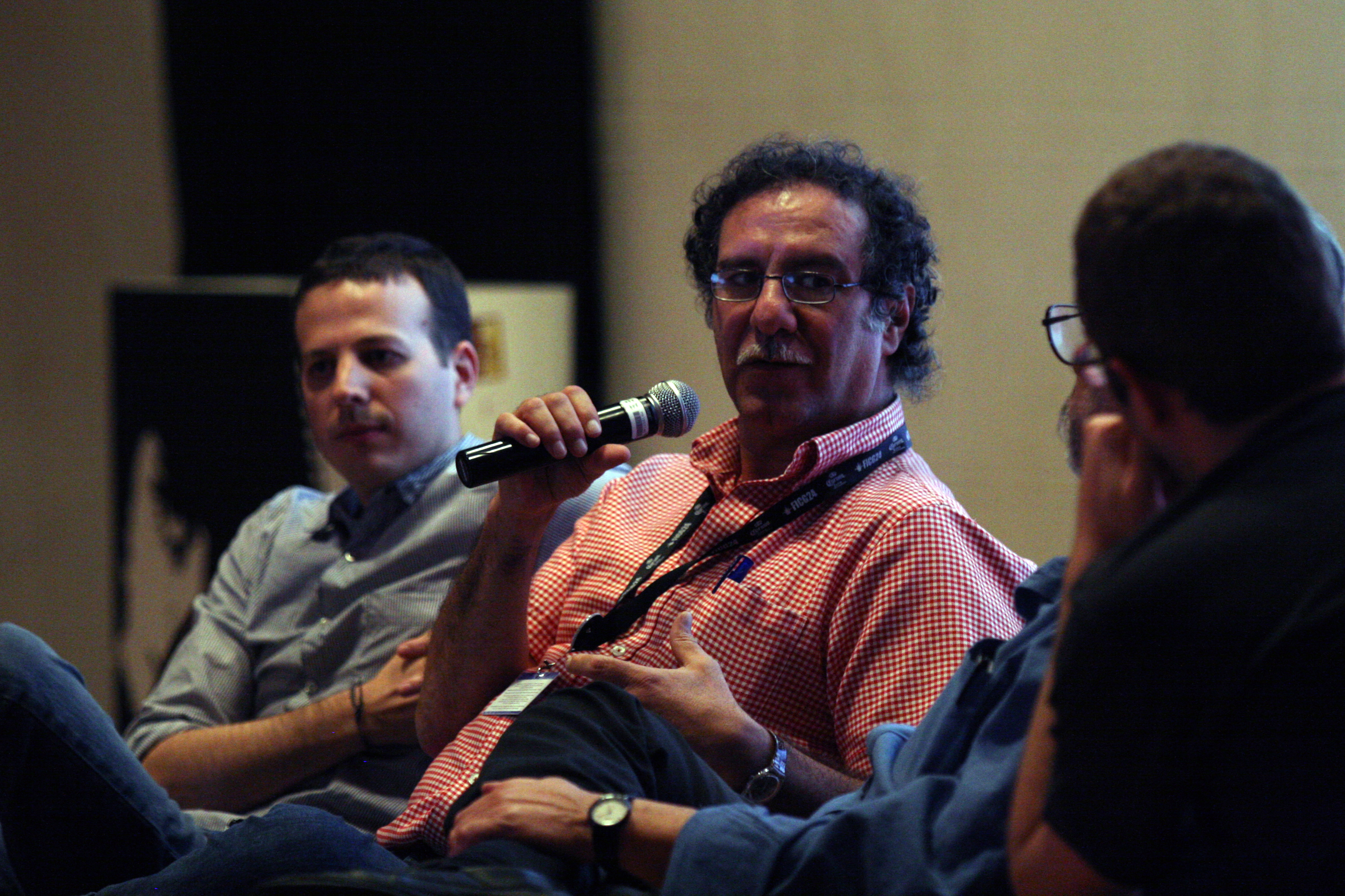 Mexican filmmaker Amat Escalante